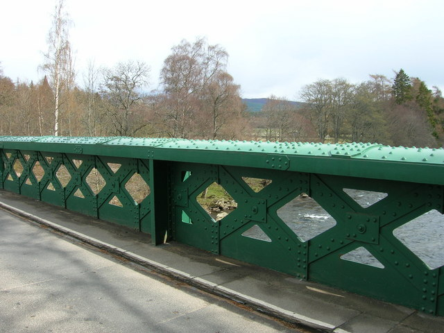 Bridge Over River Dee Old iron bridge over the river, near Balmoral Castle and village of Crathie.